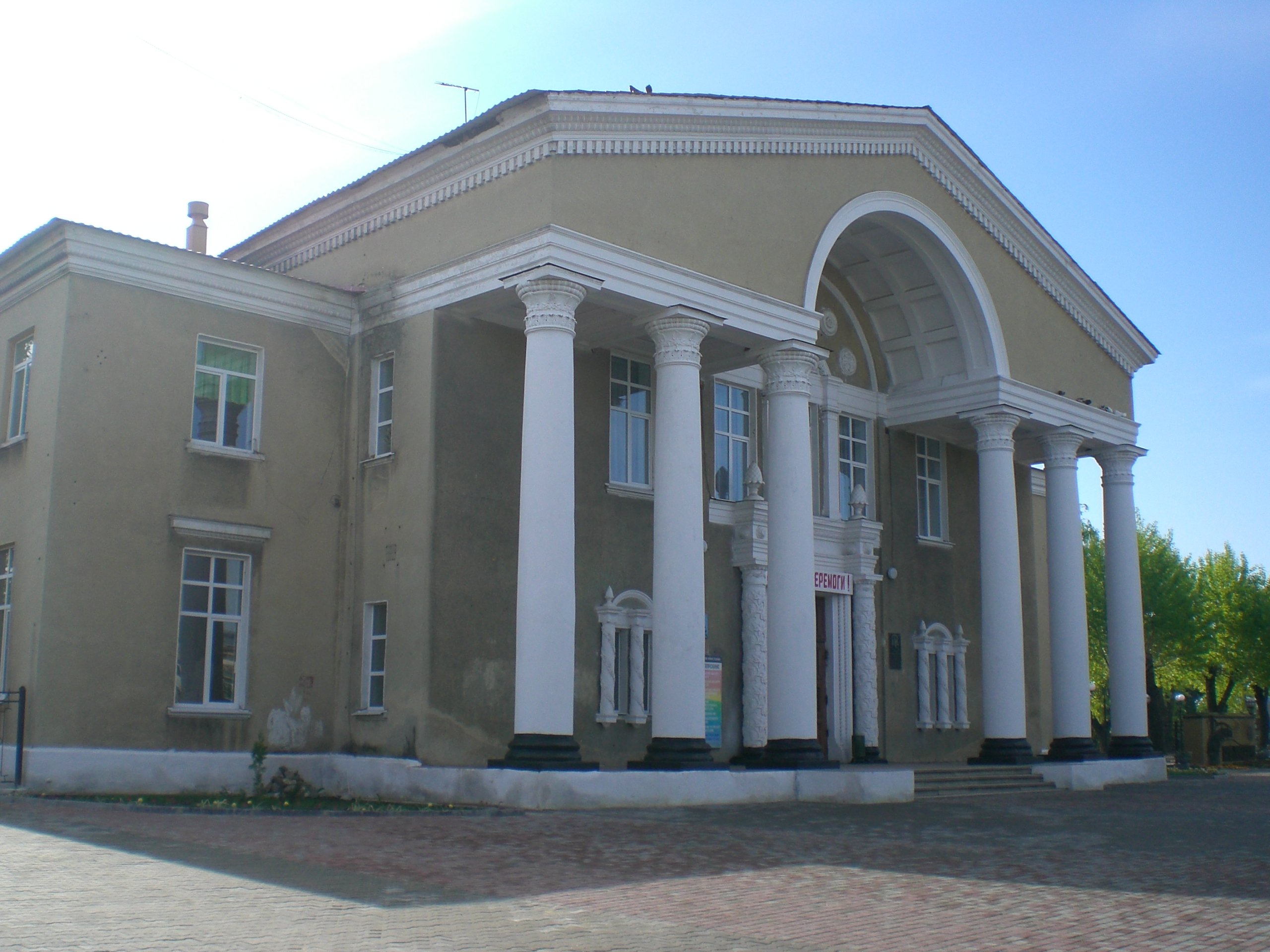 House Science and Technology